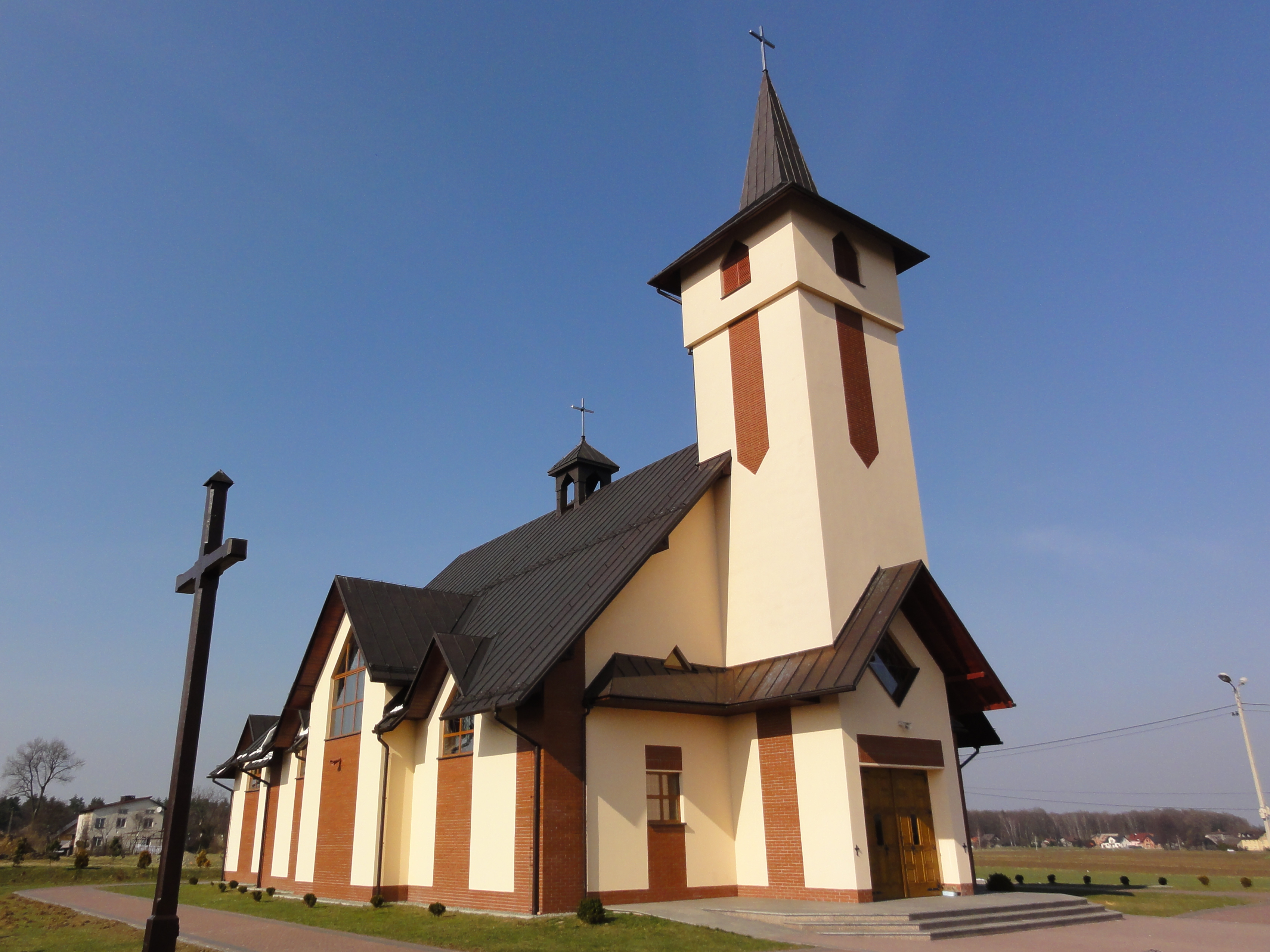 New church in Iłownica, consecrated 29th June 2011